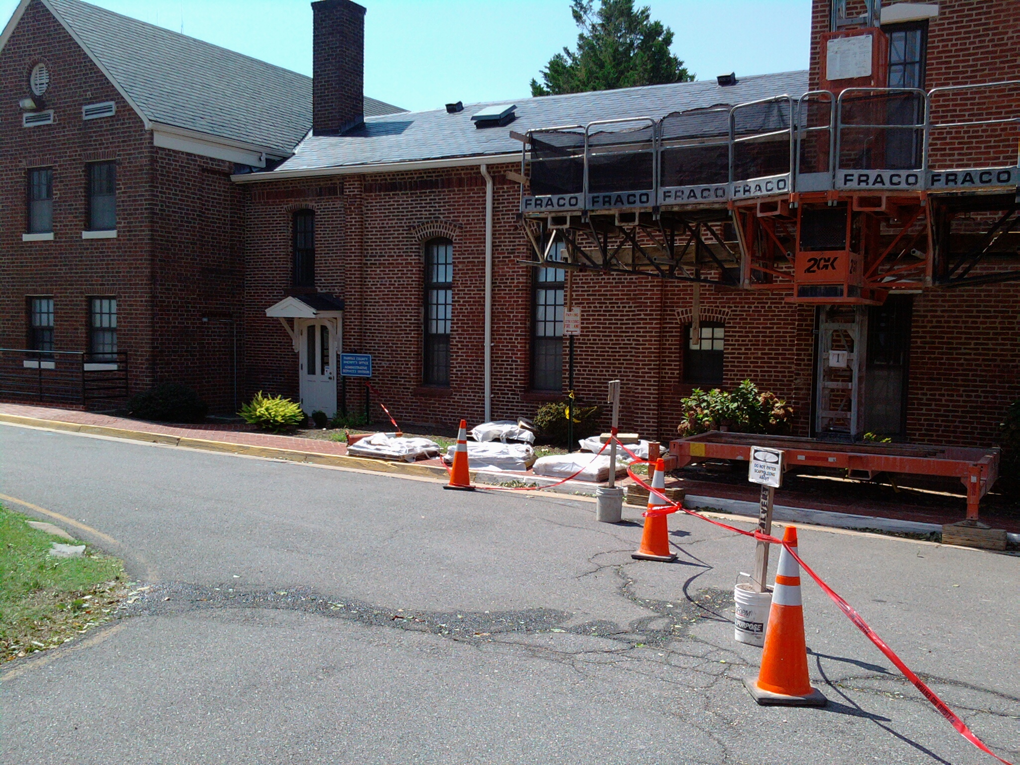 The rear section of the Old Fairfax Jail, City of Fairfax, Virginia